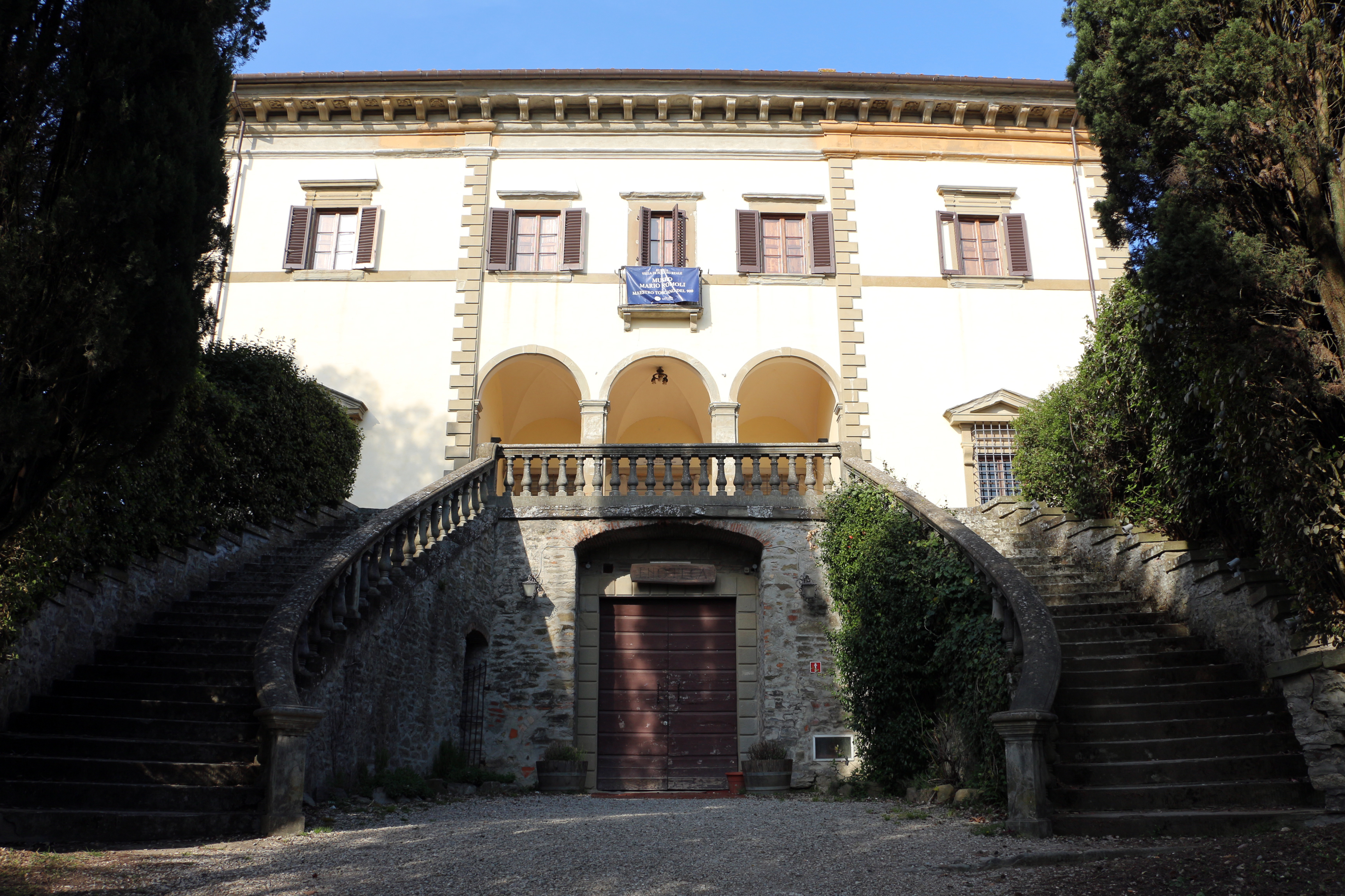 Villa di Poggio Reale (Rufina)